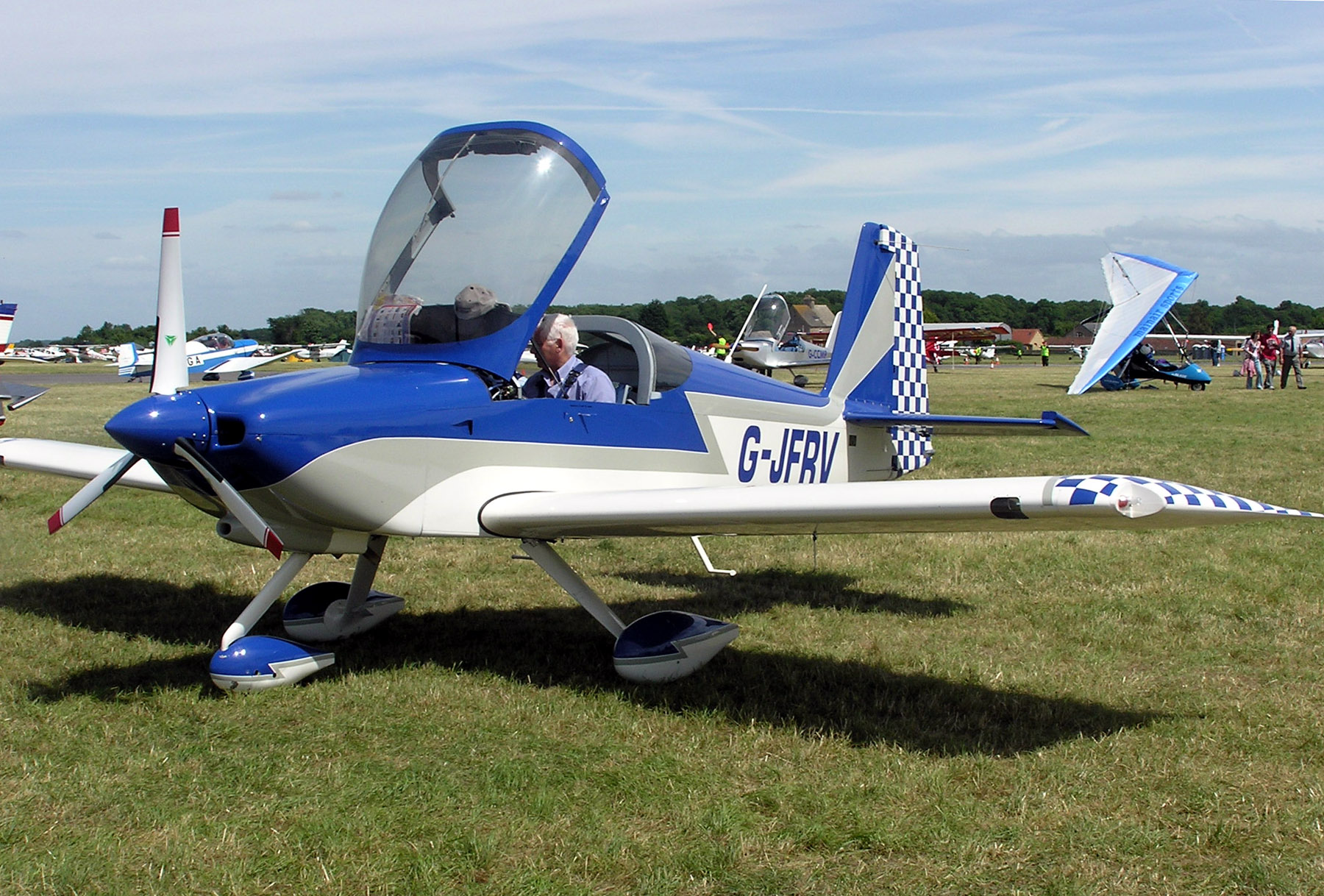 Vans RV-7A (UK registration G-JFRV) at Kemble Airfield, Kemble, Gloucestershire. Photographed by Adrian Pingstone in July 2005 and placed in the public domain.